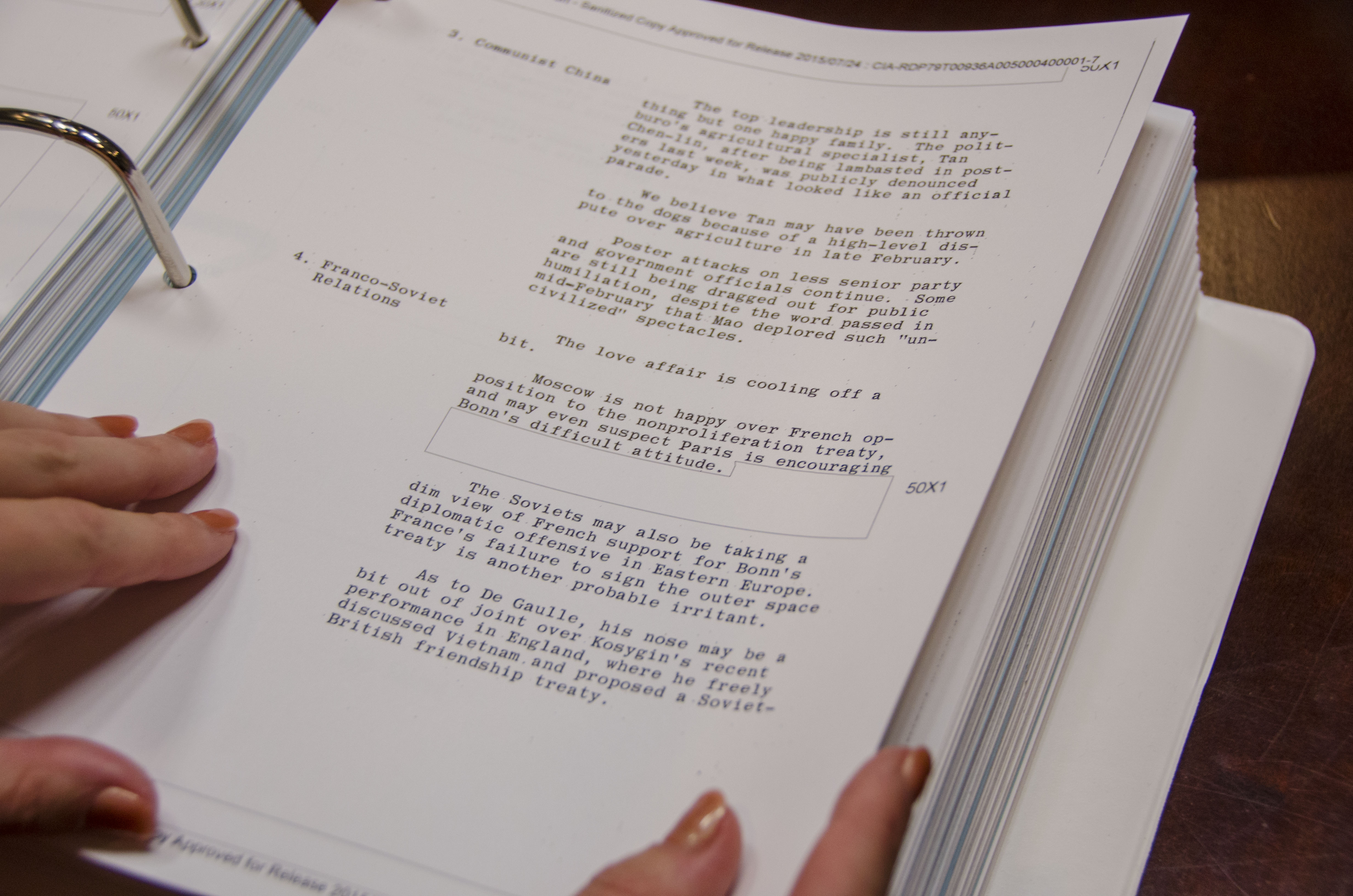 PDB 2015 Release